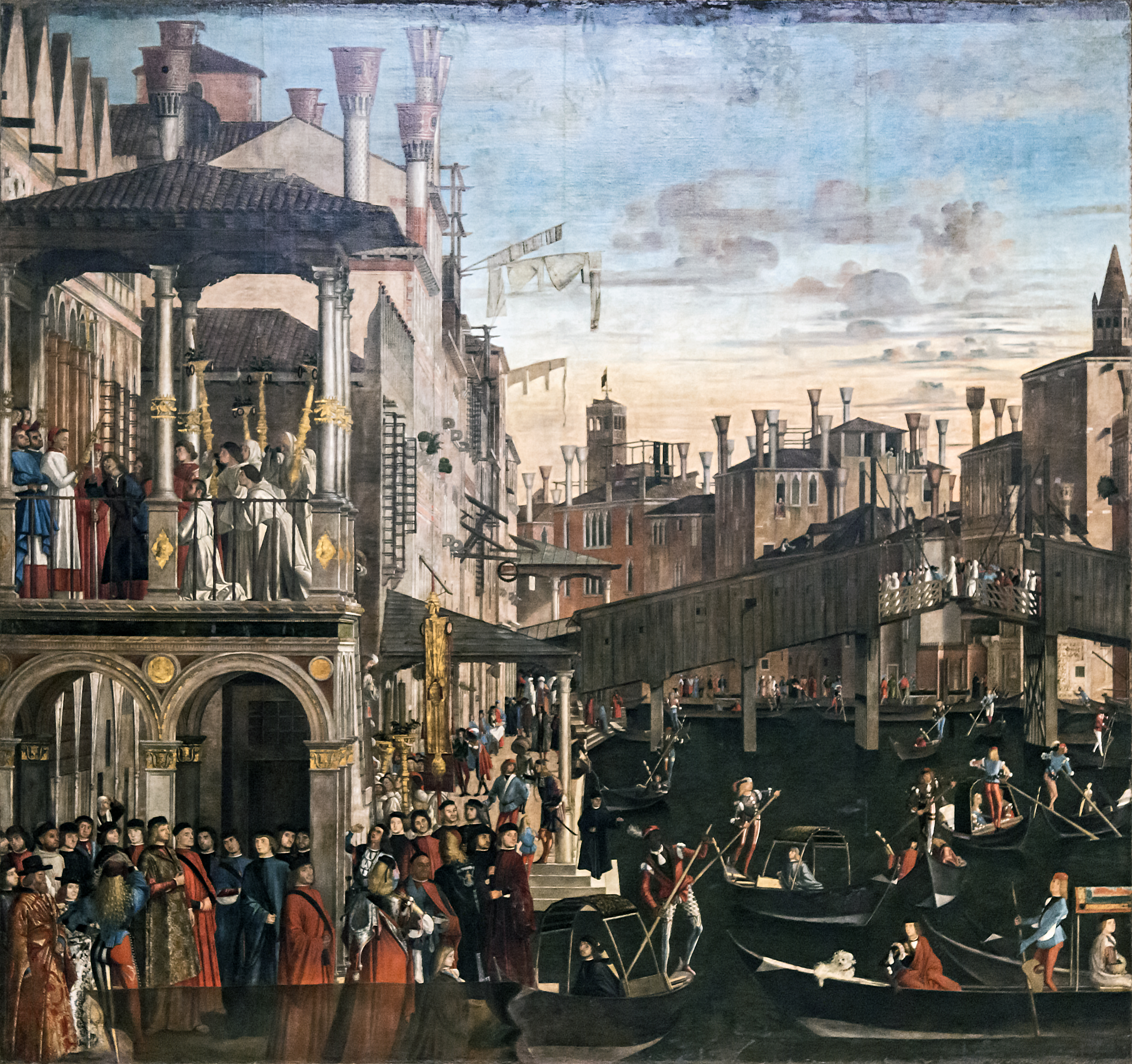 subject is the healing of a man possessed performed by Francesco Querini, the Patriarch of Grado, through the intercession of the relic of the Holy Cross in his palace at the Rialto, in the upper left part of the picture and takes place in the loggia of the palace. The bridge depicted is the one built in 1458.